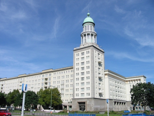 A tower of the "Frankfurt gate" at the Karl-Marx-Allee in Berlin